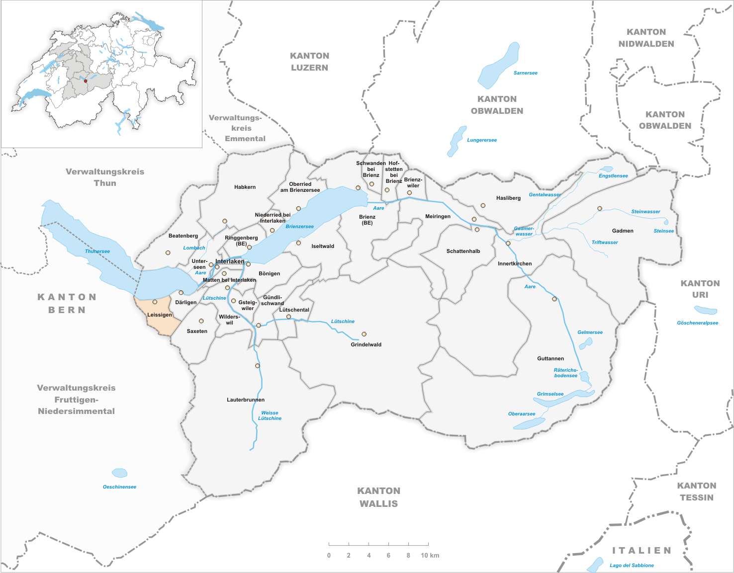 Municipality Leissigen